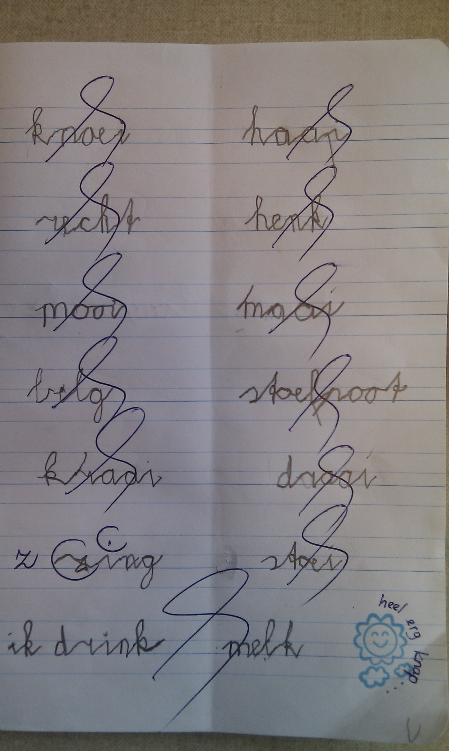 Dutch spelling in an elementary school. The photo was taken in my own classroom. I am a teacher at a primary school.